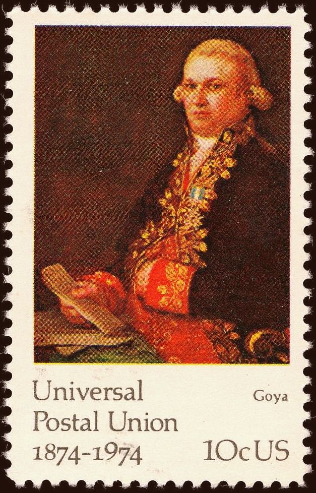 1974 US postage stamp celebrating 100 years of the UPU, 1974, Scott #1537 illustrating Goya's "Don Antonio Noriega"